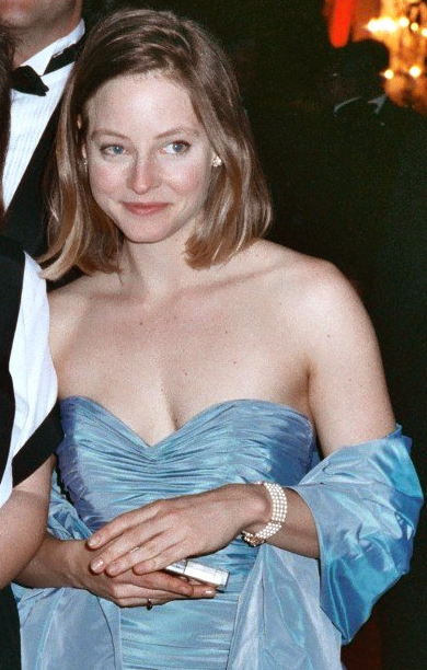 Jodie Foster at 61st Academy Awards - Governor's Ball